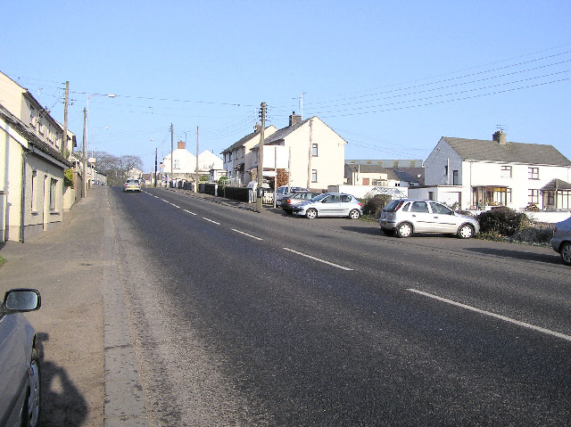 Desertmartin. A view of the quiet village looking north.